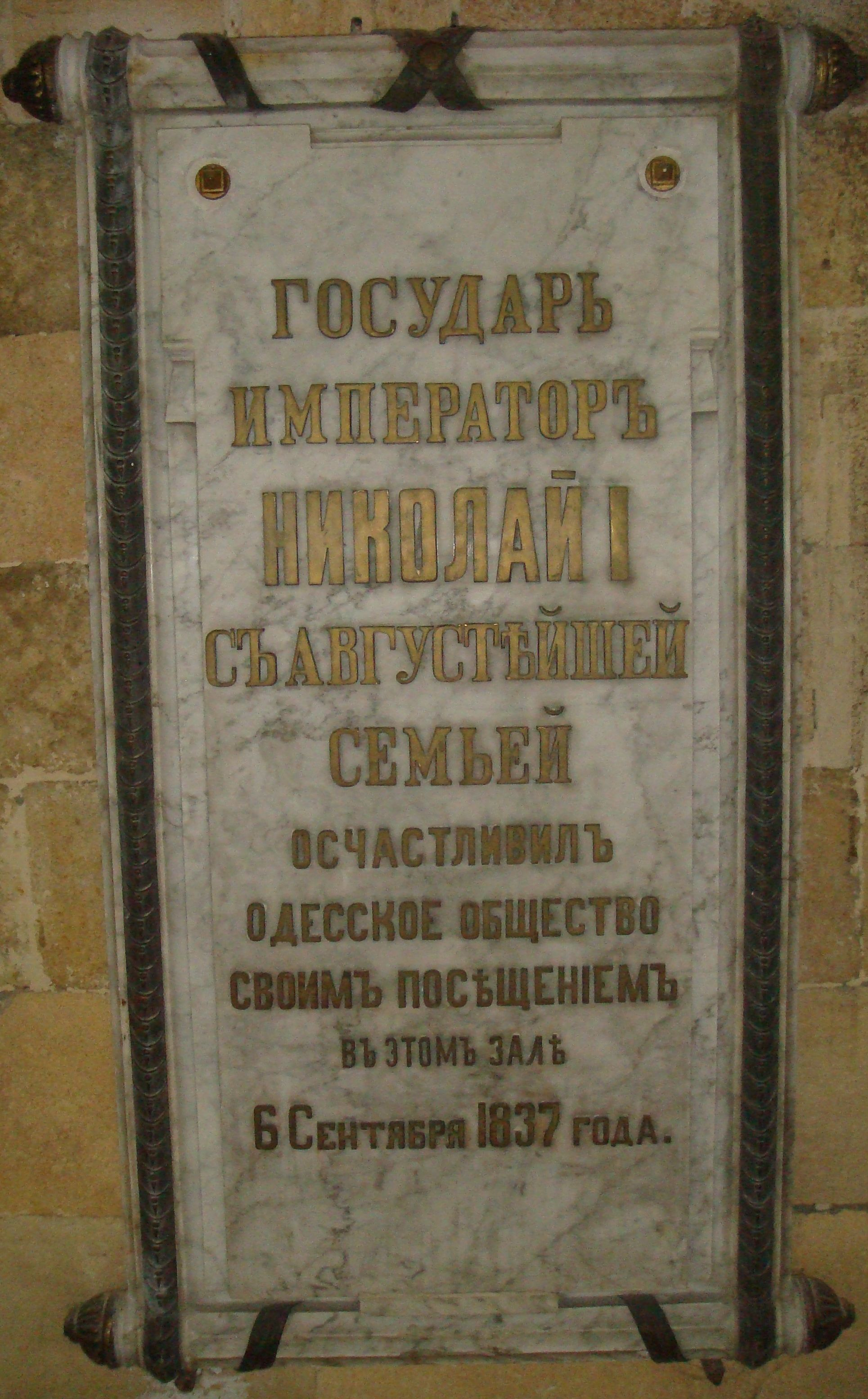 Commemorative plaque dedicated to visit to Odessa city of Russian Czar Nicolas I. Was mounted in Odessa City Hall. Dismissed after bolshevik revolution. Present location - Odessa Art Museum.